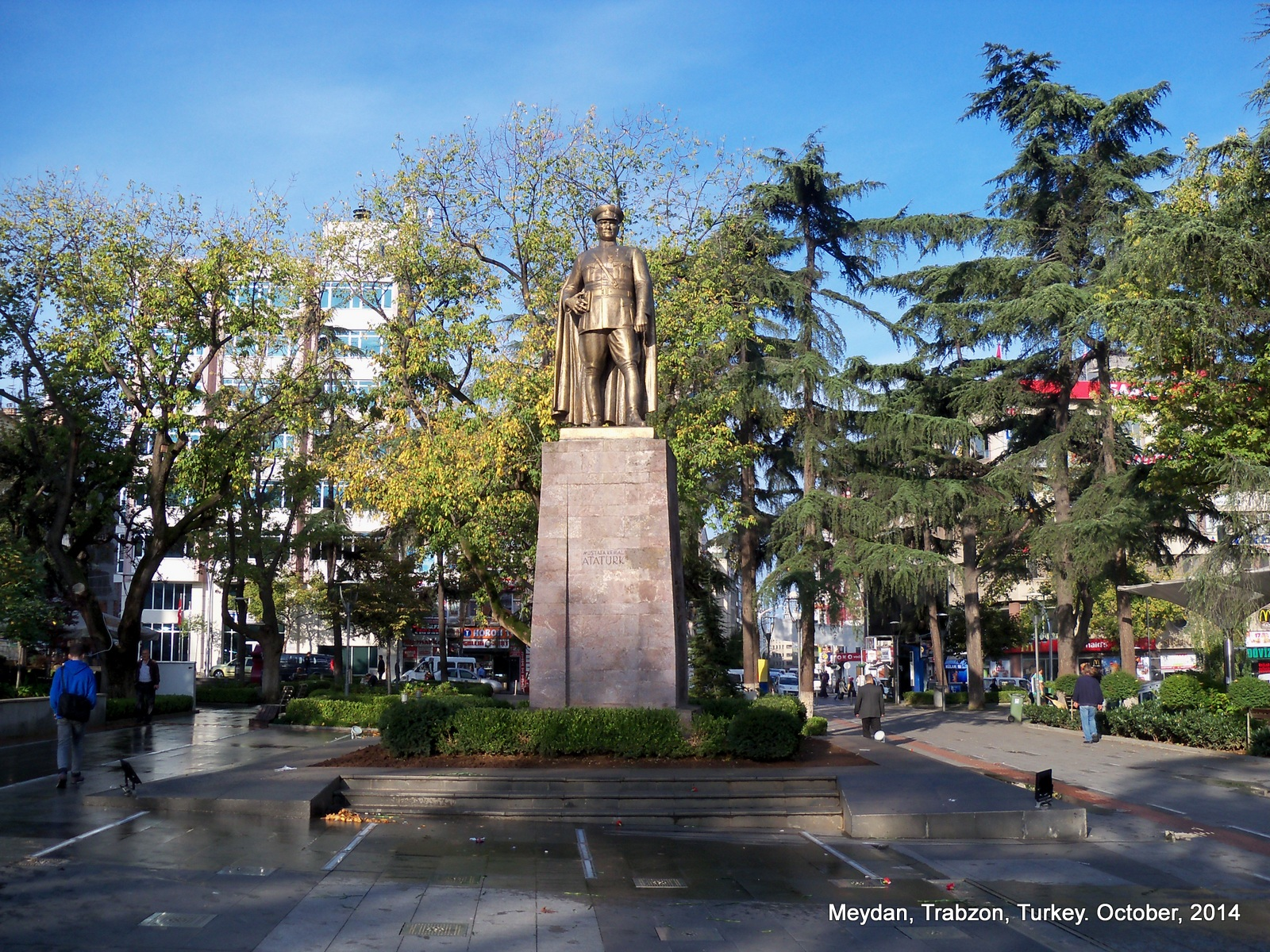 The statue of Ataturk on the central Meydan square or Trabzon, Turkey.